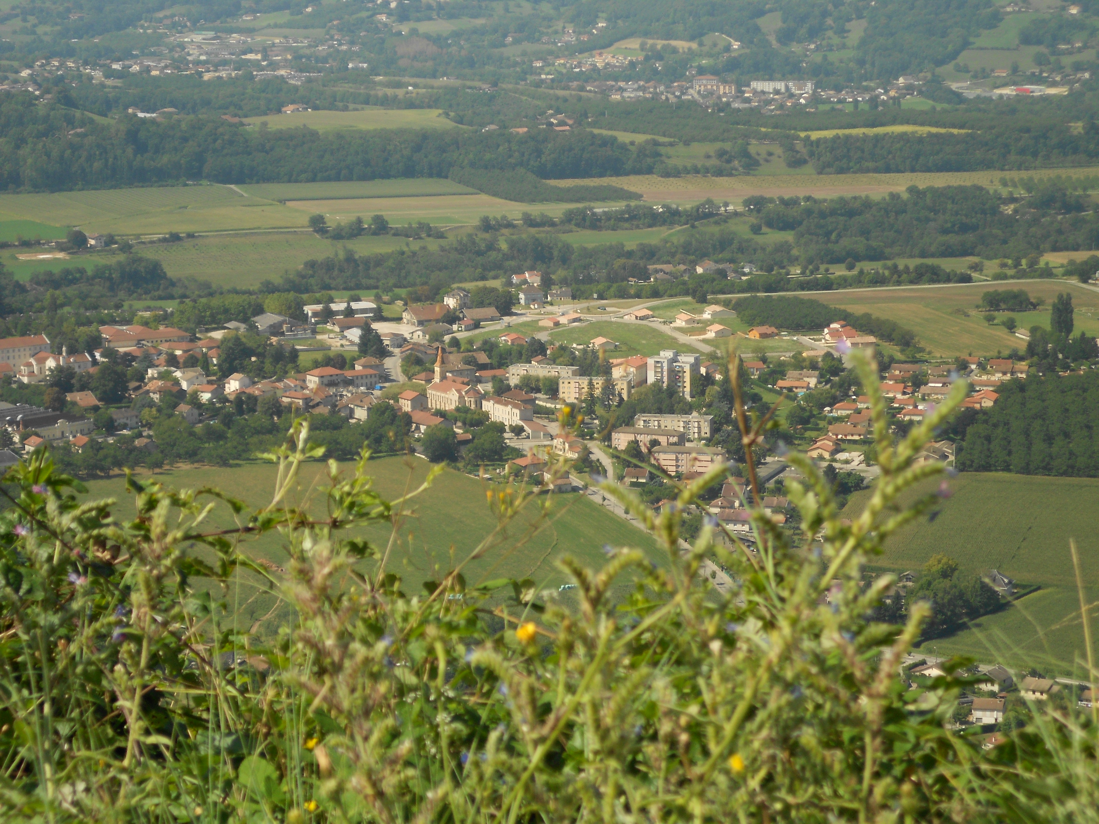 Saint-Jean-en-Royans from the east, on the road up to the Col de la Machine.